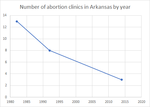 Number of abortion clinics in Arkansas by year. Created using data linked on .